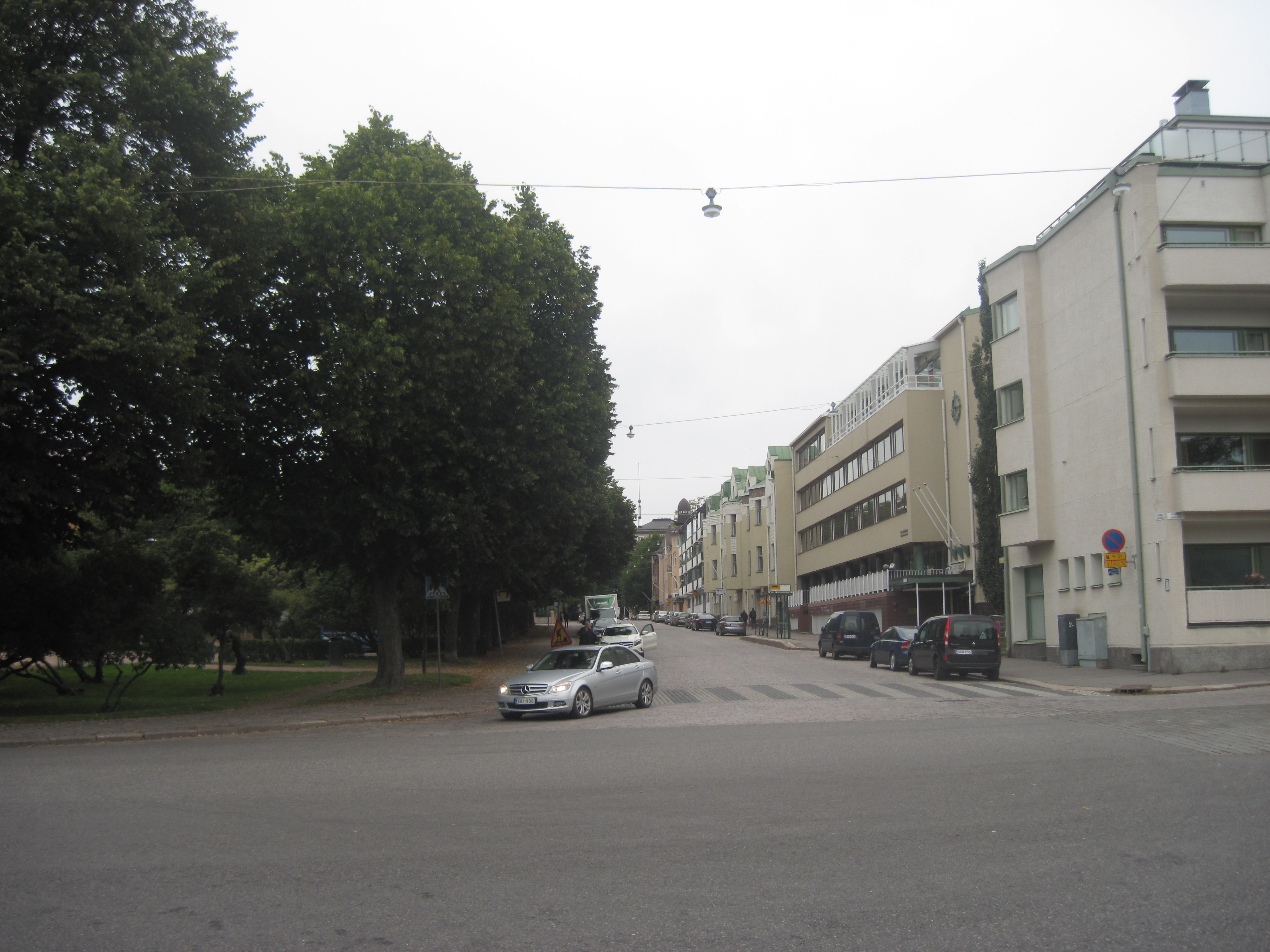 Laivurinkatu in Helsinki, as seen from South